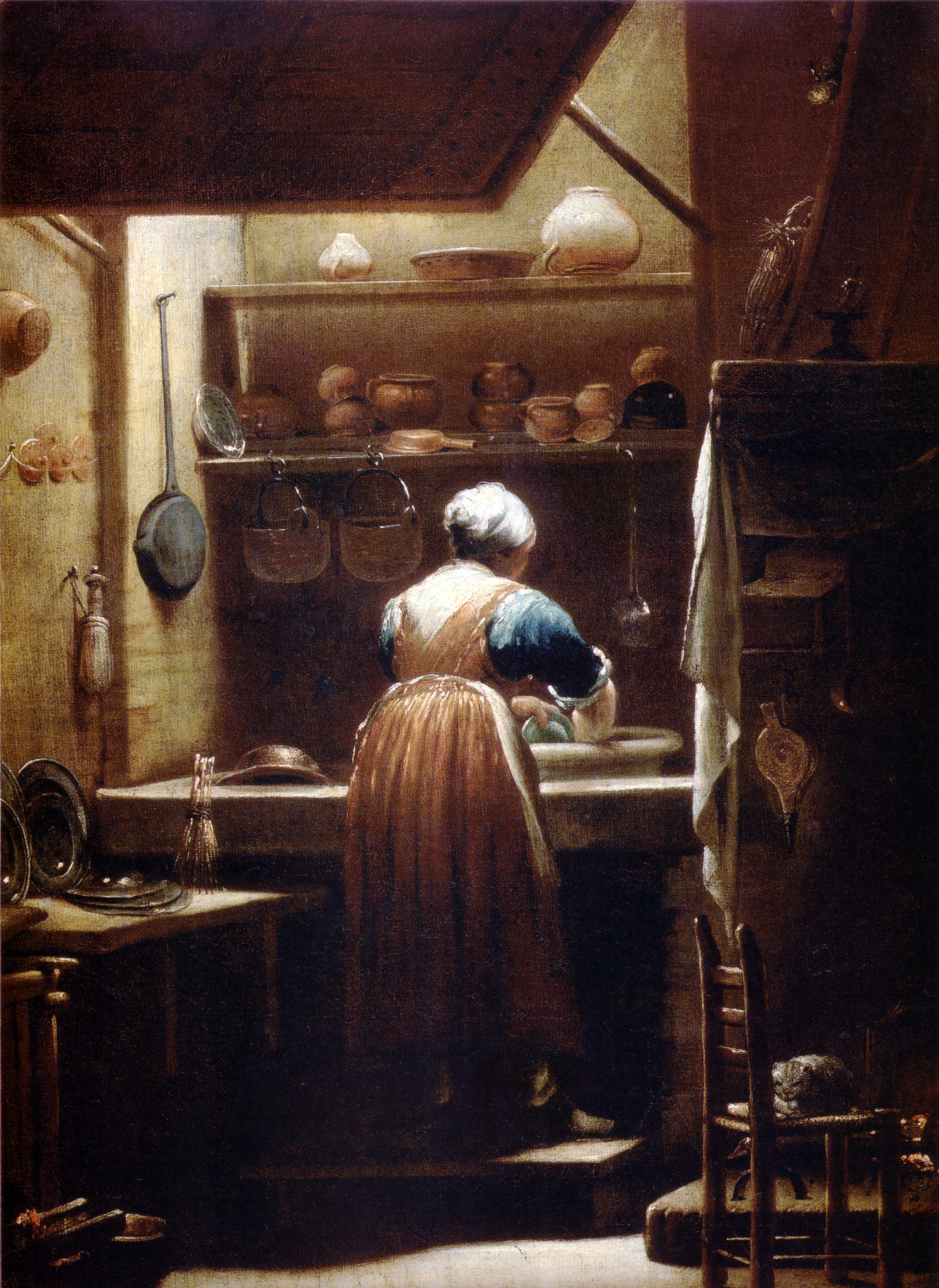 The Kitchenmaidlabel QS:Lit,"La sguattera" label QS:Len,"The Kitchenmaid"